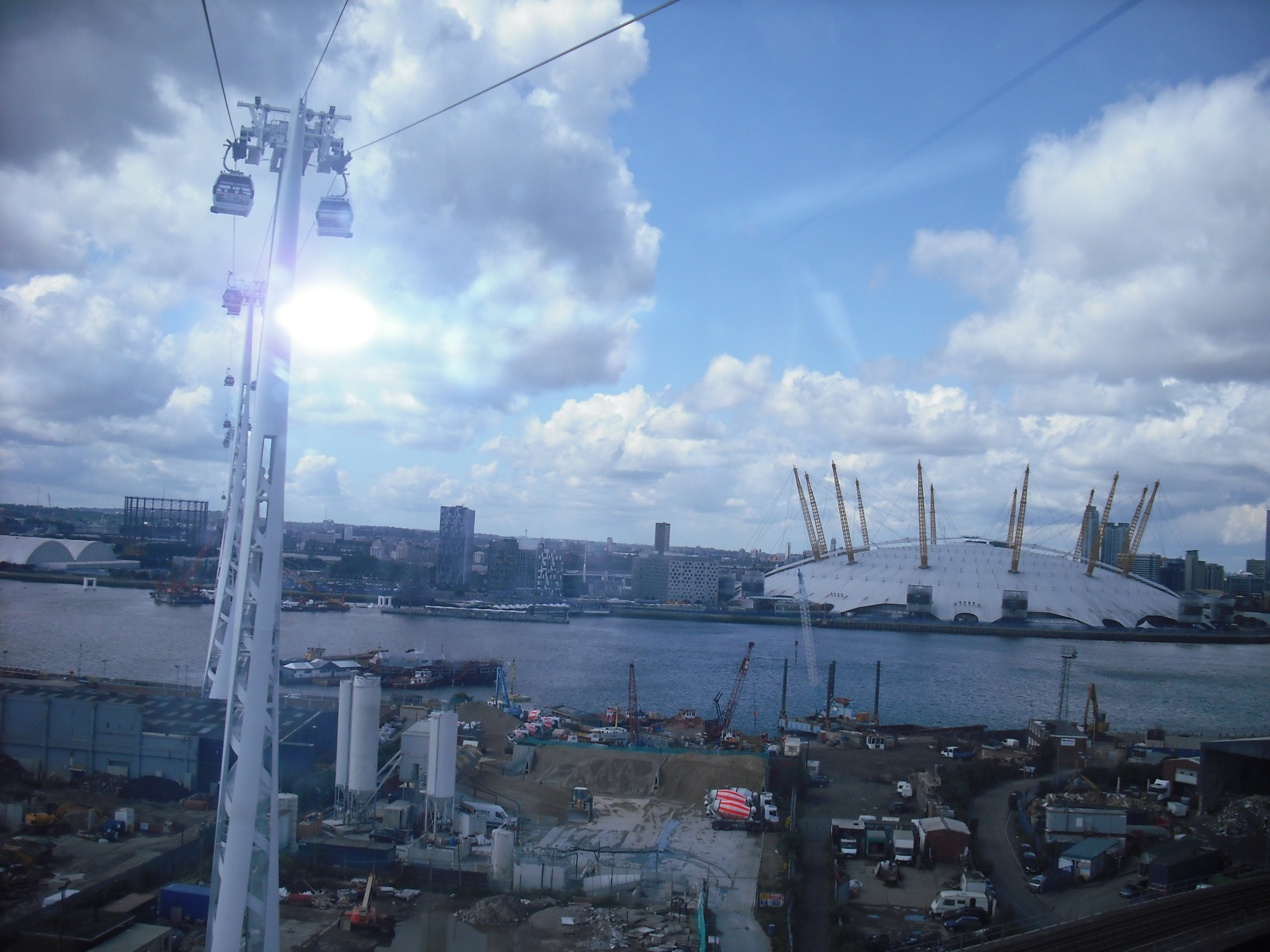 A journey inside the cable car on the Emirates Air Line, looking at The O2.